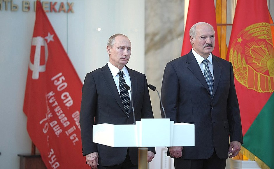 Vladimir Putin and Alexander Lukashenko attending the inauguration of a center in the Belarusian Great Patriotic War Museum in Minsk.